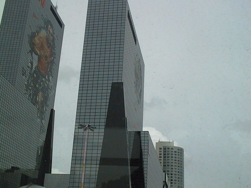 The Nationale Nederlanden building in Rotterdam with Euro 2000 livery depicting Edgar Davids crashing through the building.